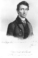 Johann Jacob Friedrich Wilhelm Parrot (14 October 1792 – 15 January 1841) was a Livonian naturalist and traveller.